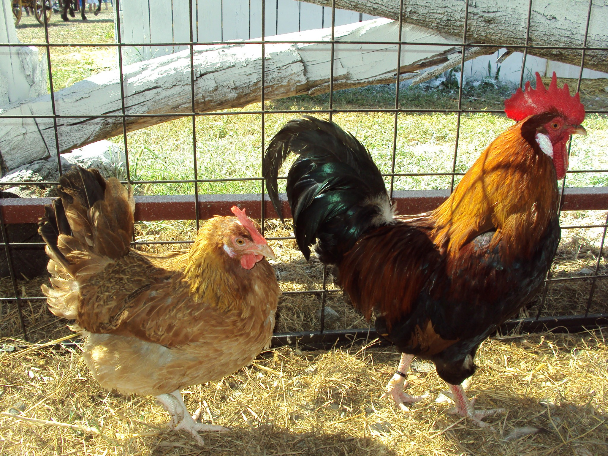 Croatian hen, Agriculture Fair in Bjelovar, Croatia